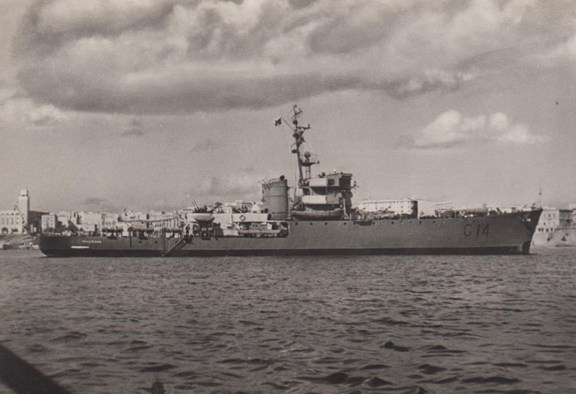 ITA C 14 Pellicano